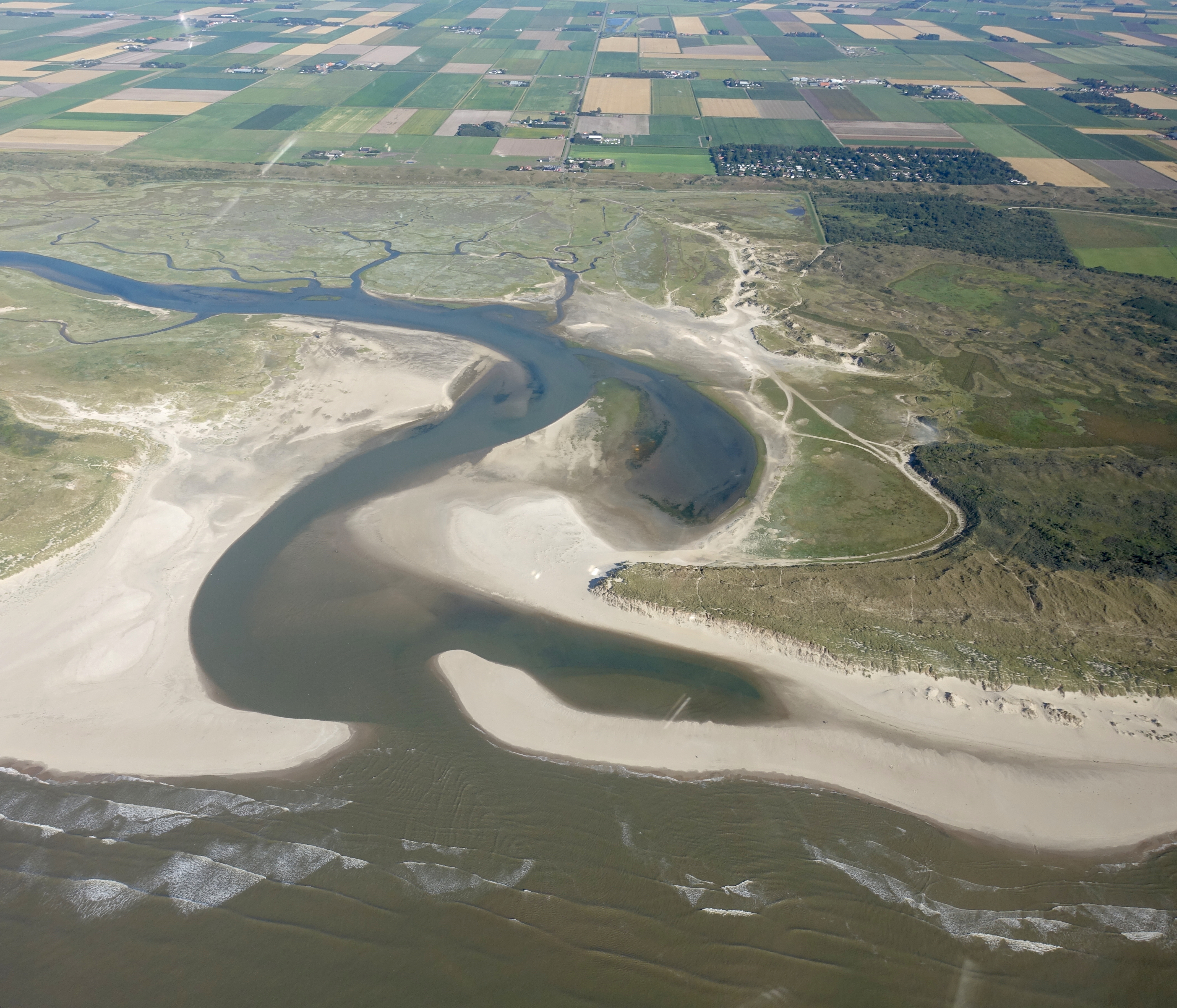 Aerial view of De Slufter on Texel island in The Netherlands.